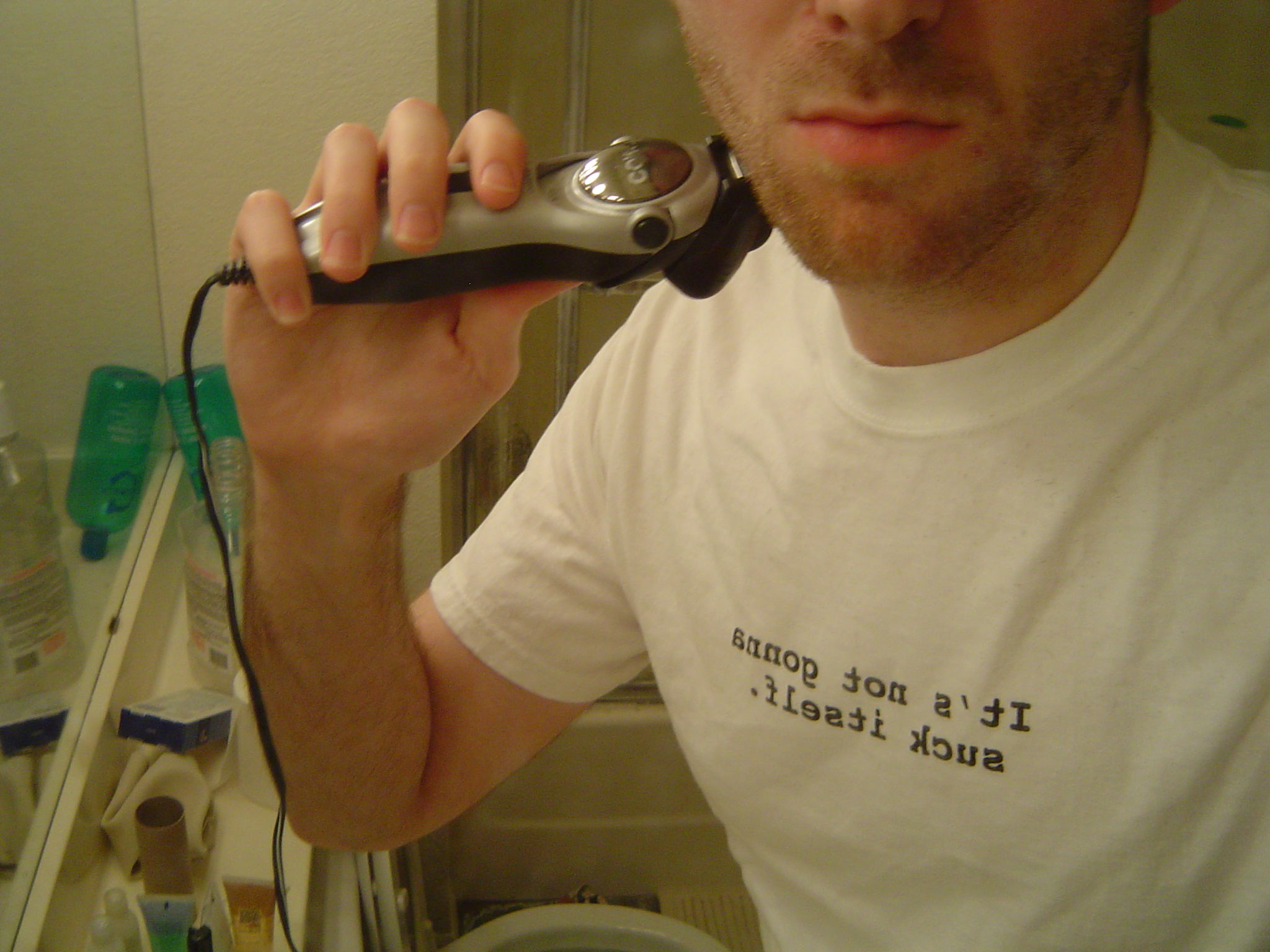 T-shirt slogan reads in mirror: it's not gonna suck itself Electric razor and stubble